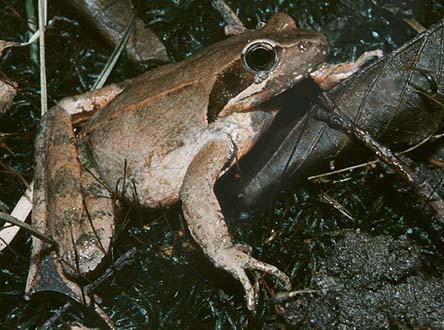 Rana latastei Picture taken in Stabio, Ticino, Switzerland, in February 1998. I took this picture and release it.